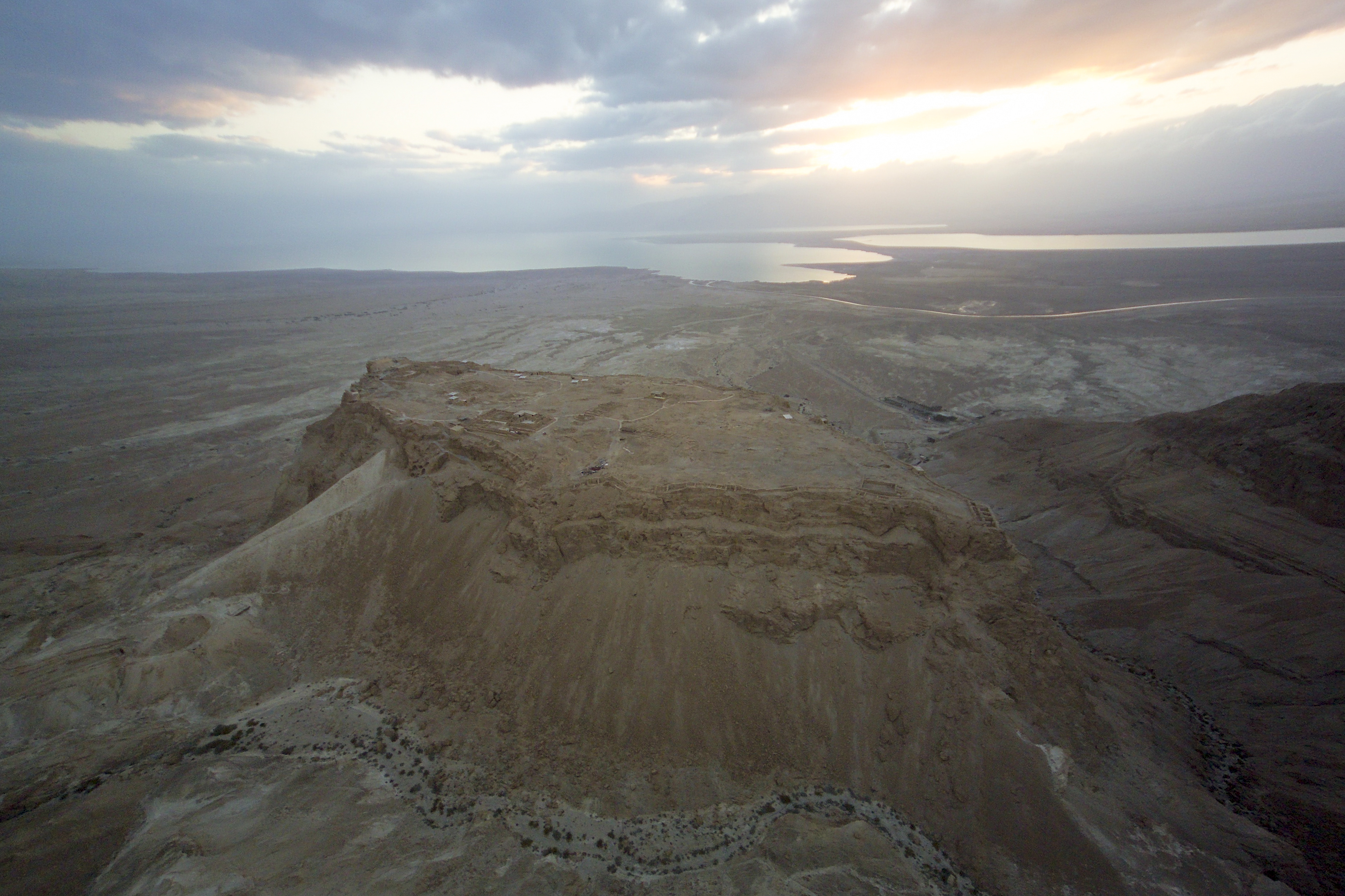 Aerial photograph of Masada (Hebrew מצדה), Israel.